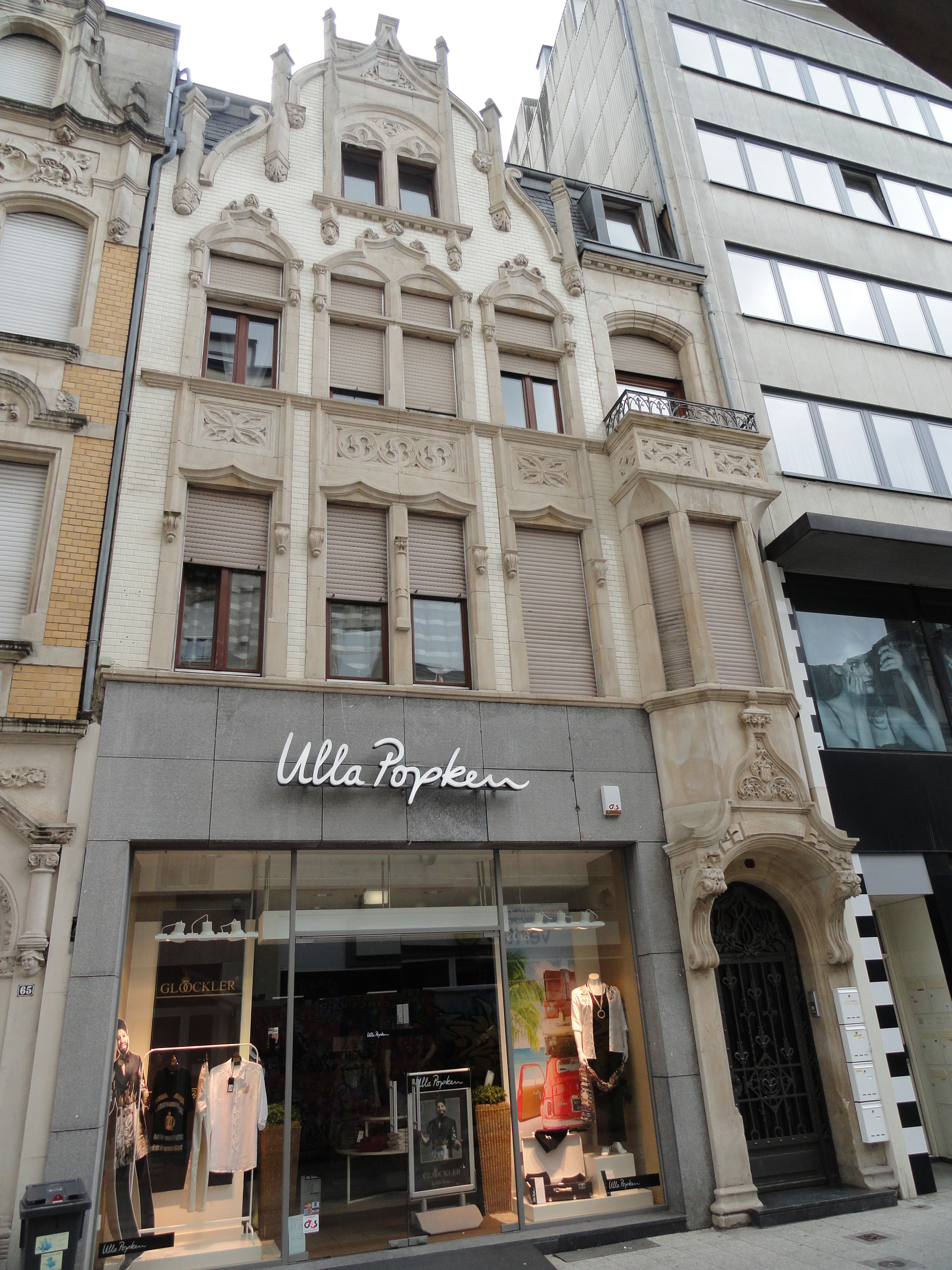 67 rue de l'Alzette - Esch-sur-Alzette - Grand duché du Luxembourg - Style Gothico -Art nouveau